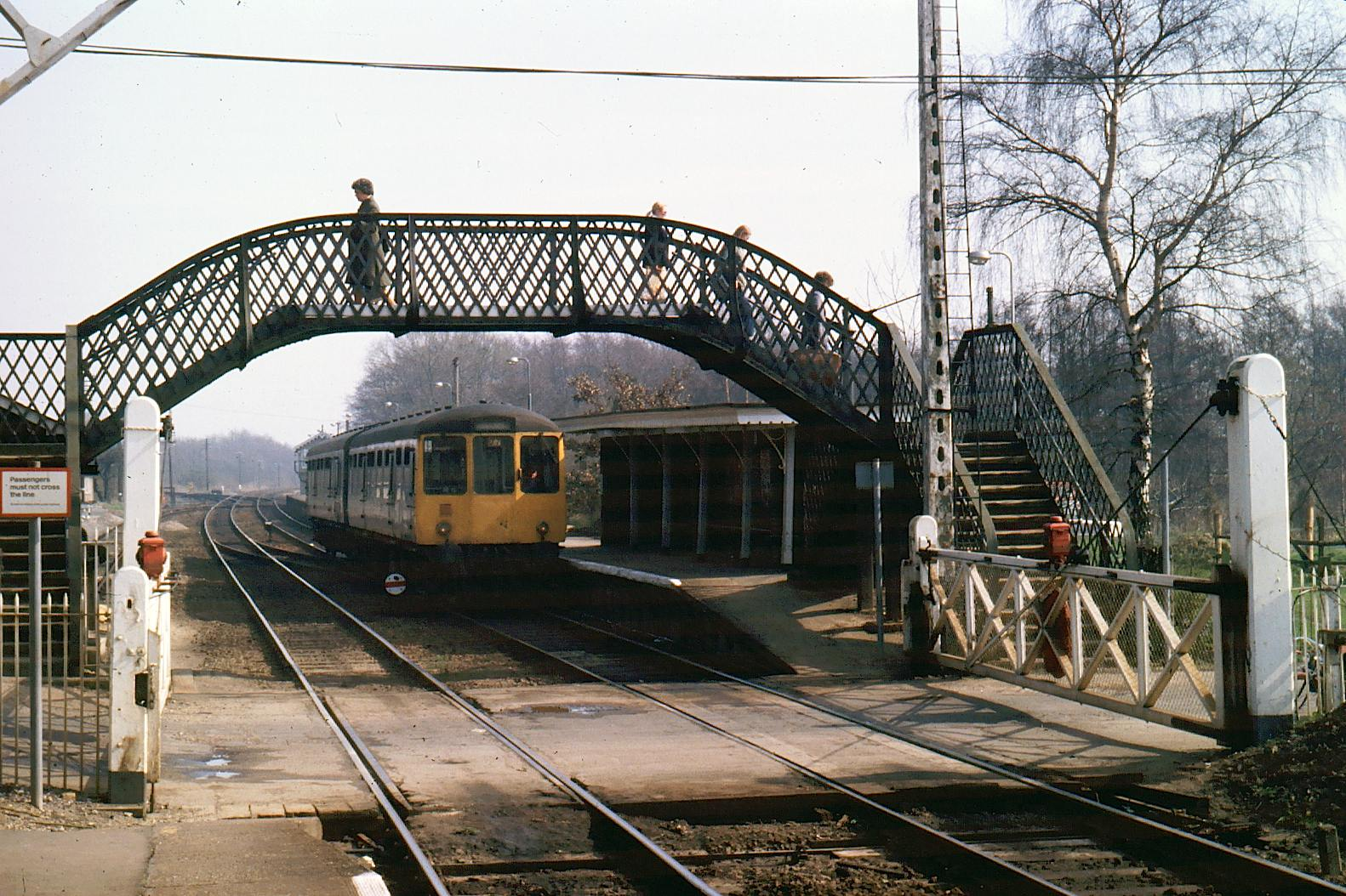 Brundall station